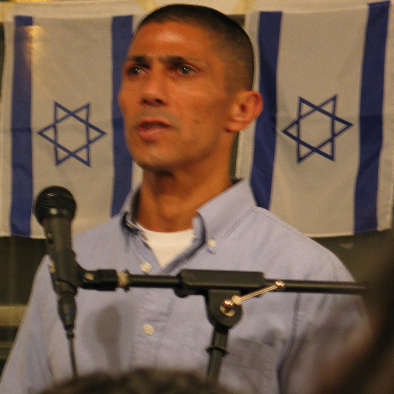 Bedouin Israeli diplomat Ishmael Khaldi speaks at Rutgers